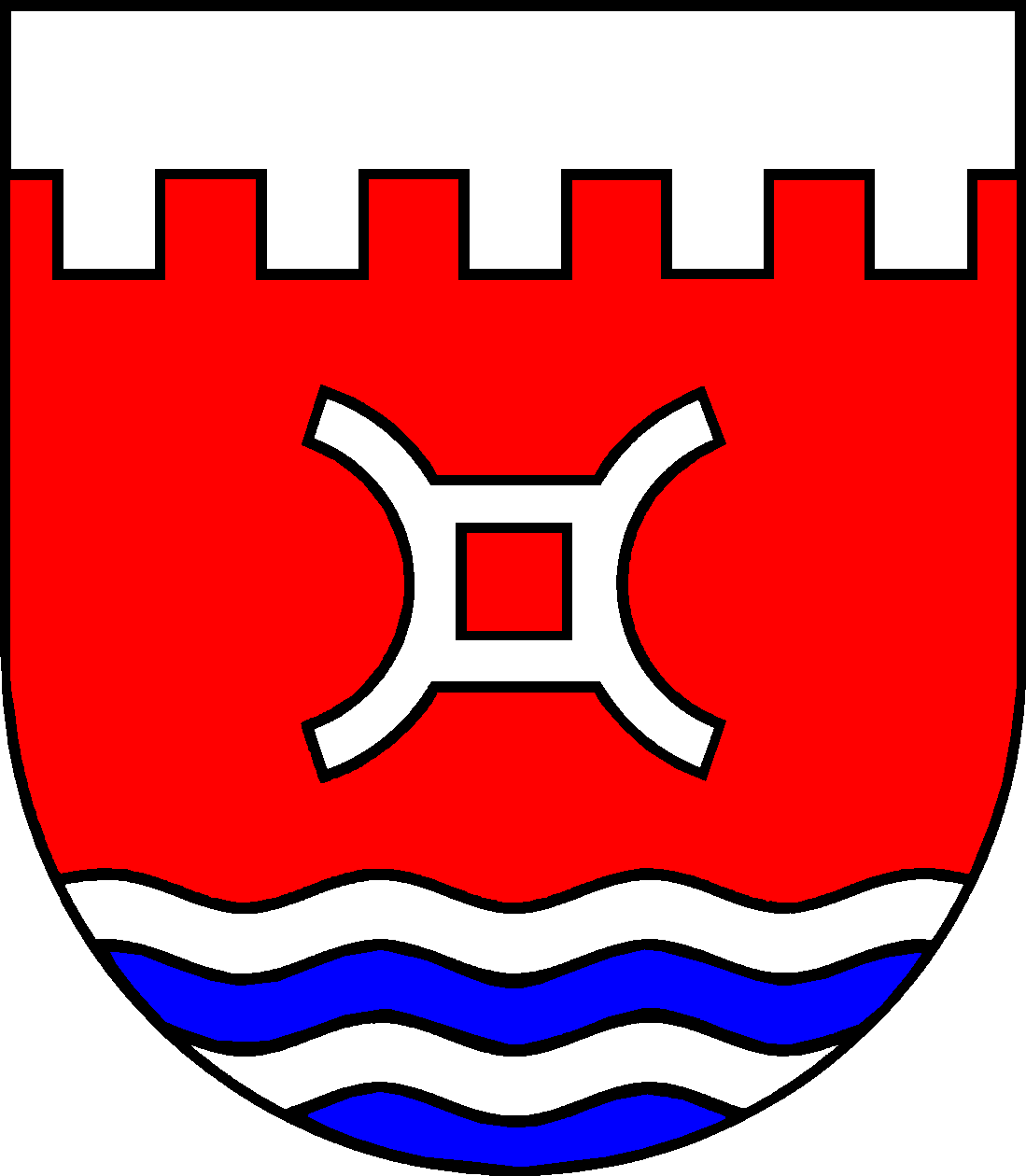 Coat of arms of the municipality Quarnbek in Schleswig-Holstein, Germany.